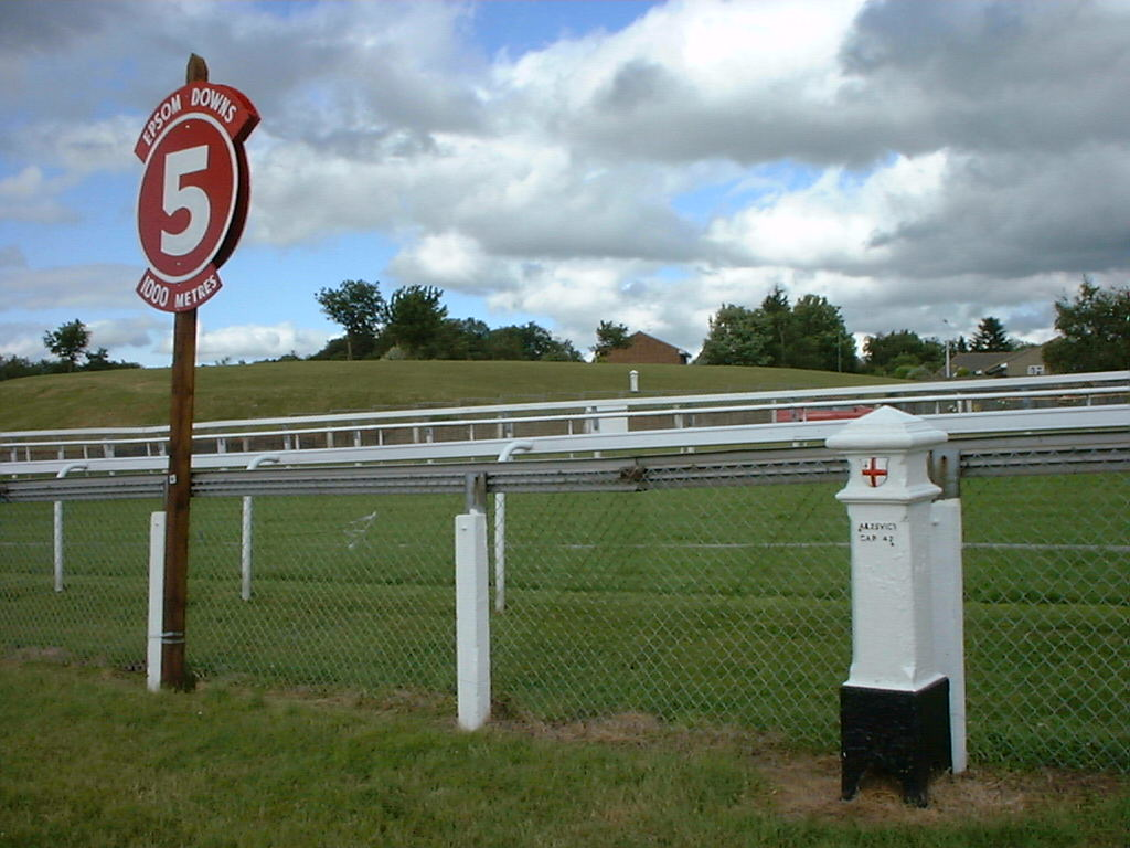 The 5 furlong post of Epsom Downs Racecourse where the English Derby is run. It indicates 5 furlongs from the finishing line. The riders pass this post about half a furlong before Tattenham Corner. That post is only erected during race meetings, but the coal-tax post on the right of the picture has remained firmly rooted to the spot since 1861 - its roots are showing rather more than they should. It is a Grade II listed building see Images of England entry. Another coal-tax post can just be seen on the knoll in the background - see [1]. For a view of the Epsom Grandstands and more on coal-tax posts see this external site.